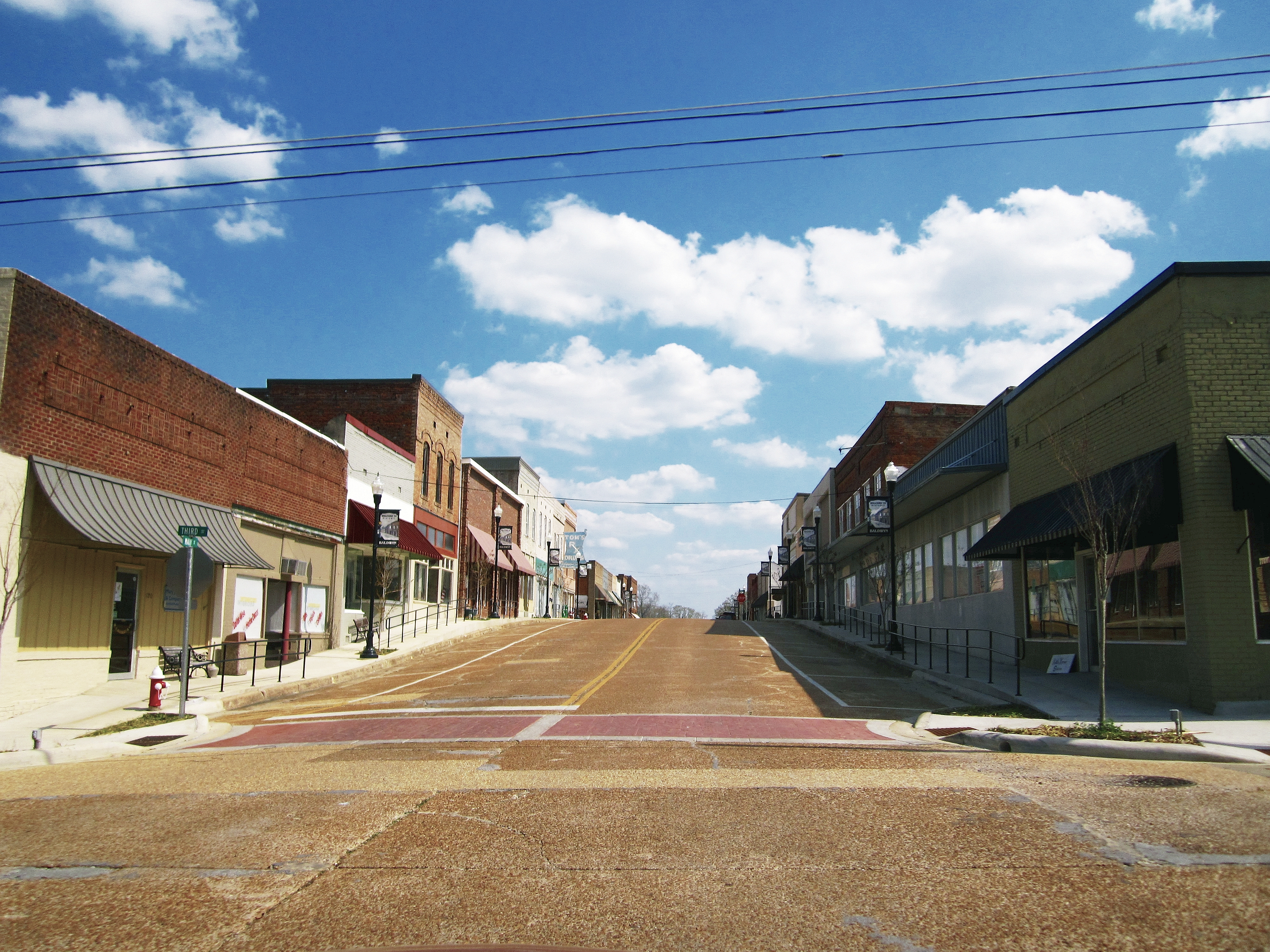 Typical downtown main street in Mississippi.